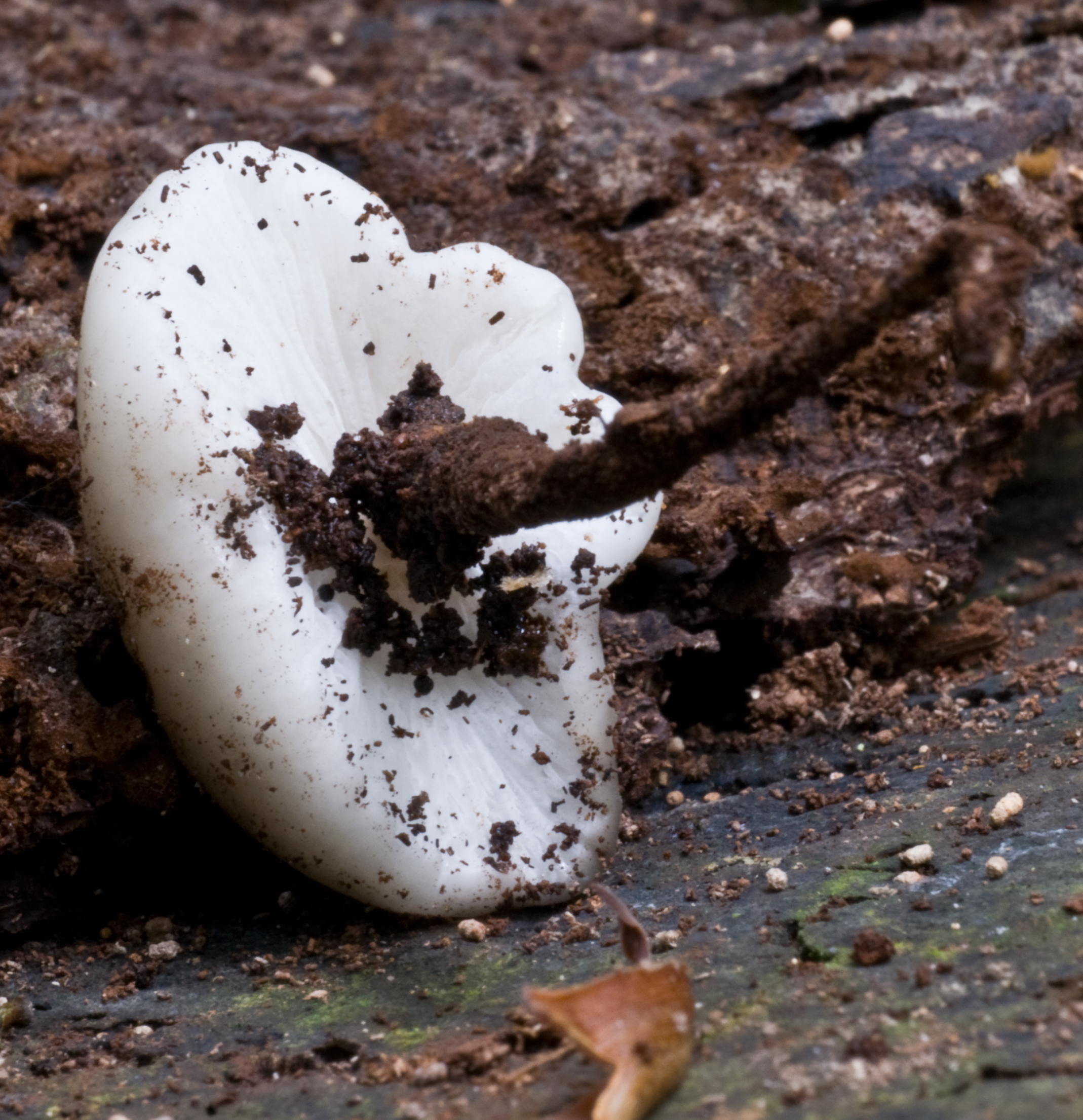 An unidentified species of the fungal genus Cribbea A.H. Sm. & D.A. Reid. Specimen photographed in Comboyne State Forest, New South Wales, Australia.